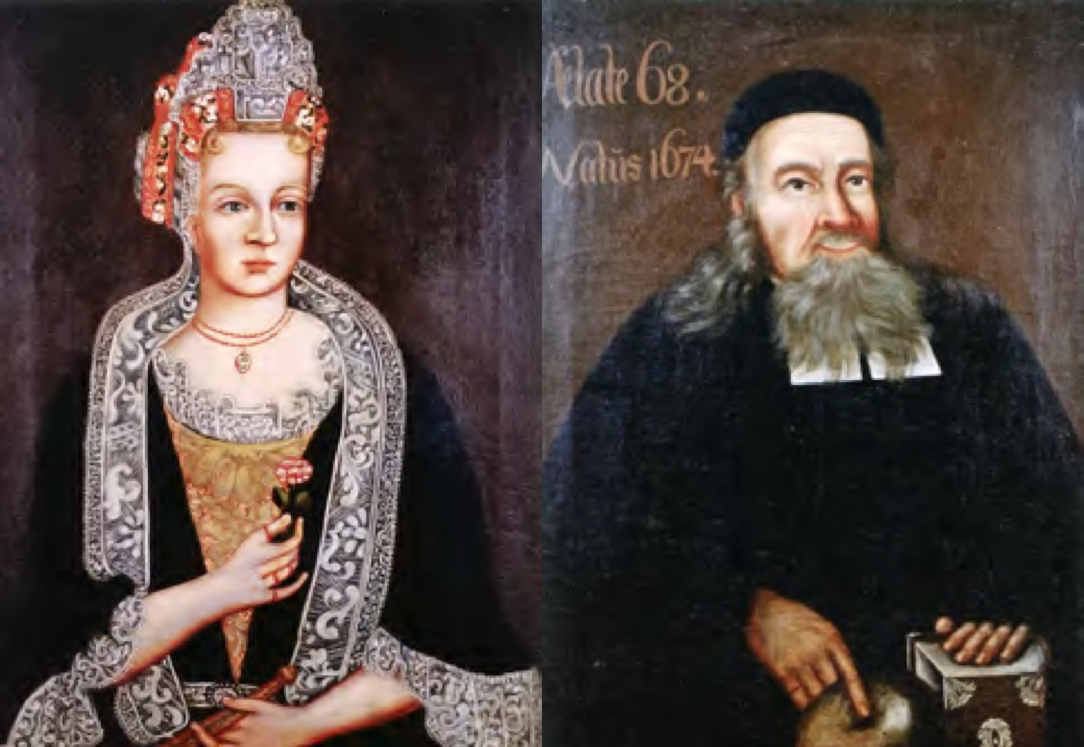 Carl Linnaeus’ parents, Christina Brodersonia (1688–1733) and Nils Linnaeus (1674–1748). Linnaeus’ Hammarby, Sweden.